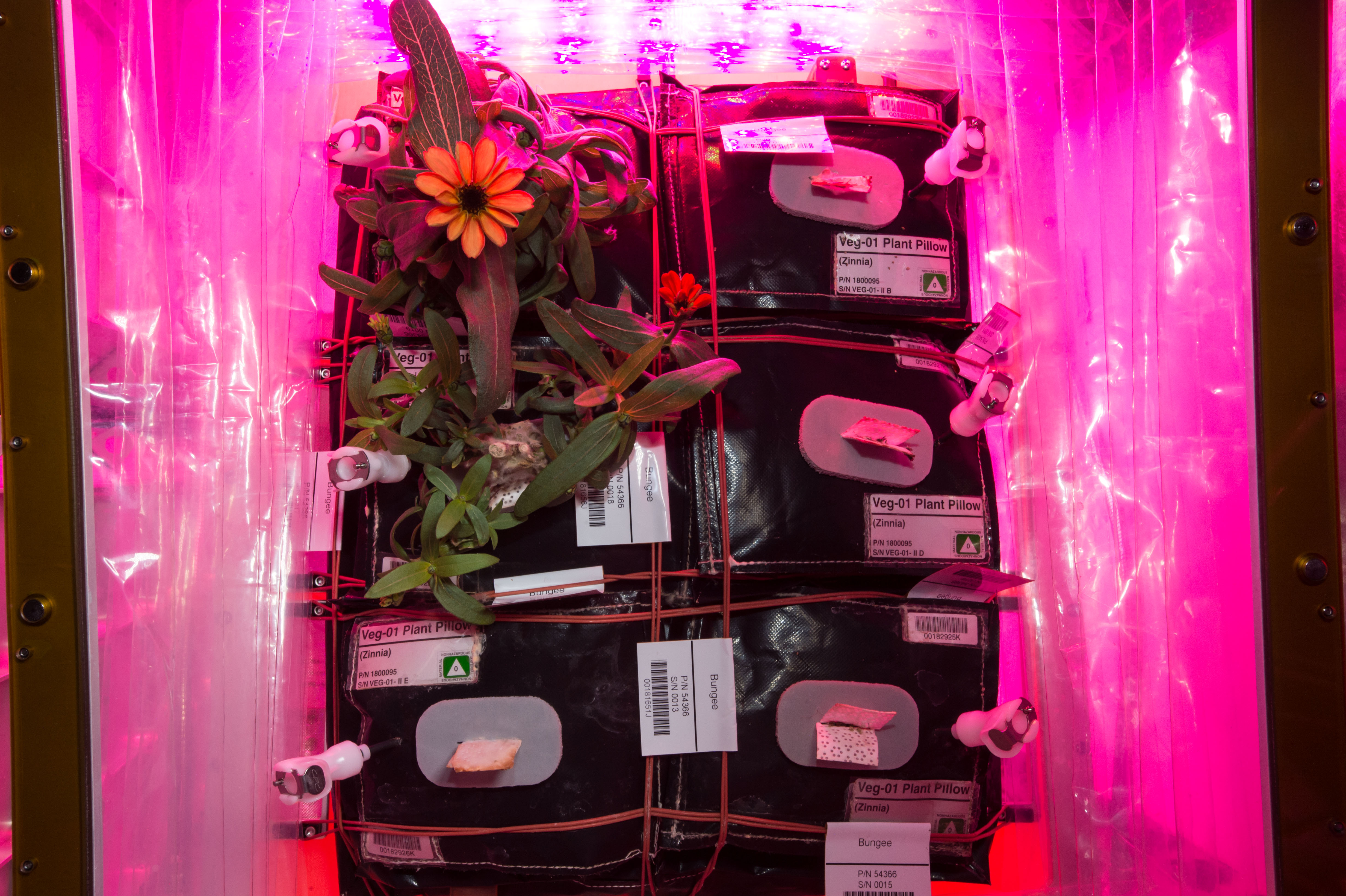 Photos of a Zinnia flower grown inside the Veggie facility onboard the International Space Station. This flowering crop experiment began on Nov. 16, 2015, when NASA astronaut Kjell Lindgren activated the Veggie system and its rooting "pillows" containing zinnia seeds. The challenging process of growing the zinnias provided an exceptional opportunity for scientists back on Earth to better understand how plants grow in microgravity, and for astronauts to practice doing what they’ll be tasked with on a deep space mission: autonomous gardening. The first flowers grown from seed in space happened before Mir, on Salyut-6 in 1982. Russian and American scientists have been doing plant research in space since the late 1970's.